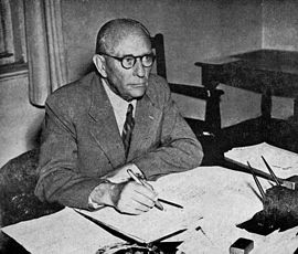 Dr.Karl Bremer (1885-1953), MP and South african minister of health and public welfare (1951-1953)